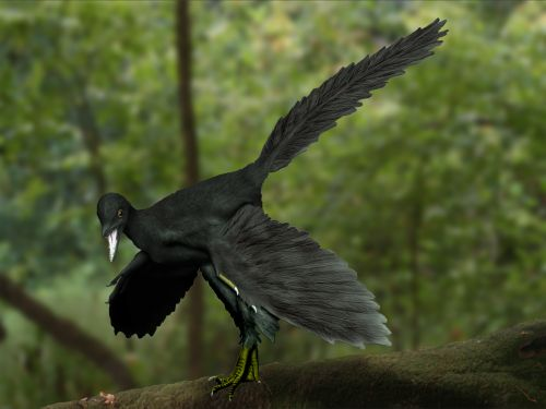 Artist's restoration of Archaeopteryx following Carney's 2011 feather coloration study, indicating that at least some of the feathers on the animal were black